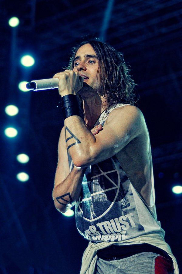 Thirty Seconds to Mars performing in Padova, Italy on July 14, 2013